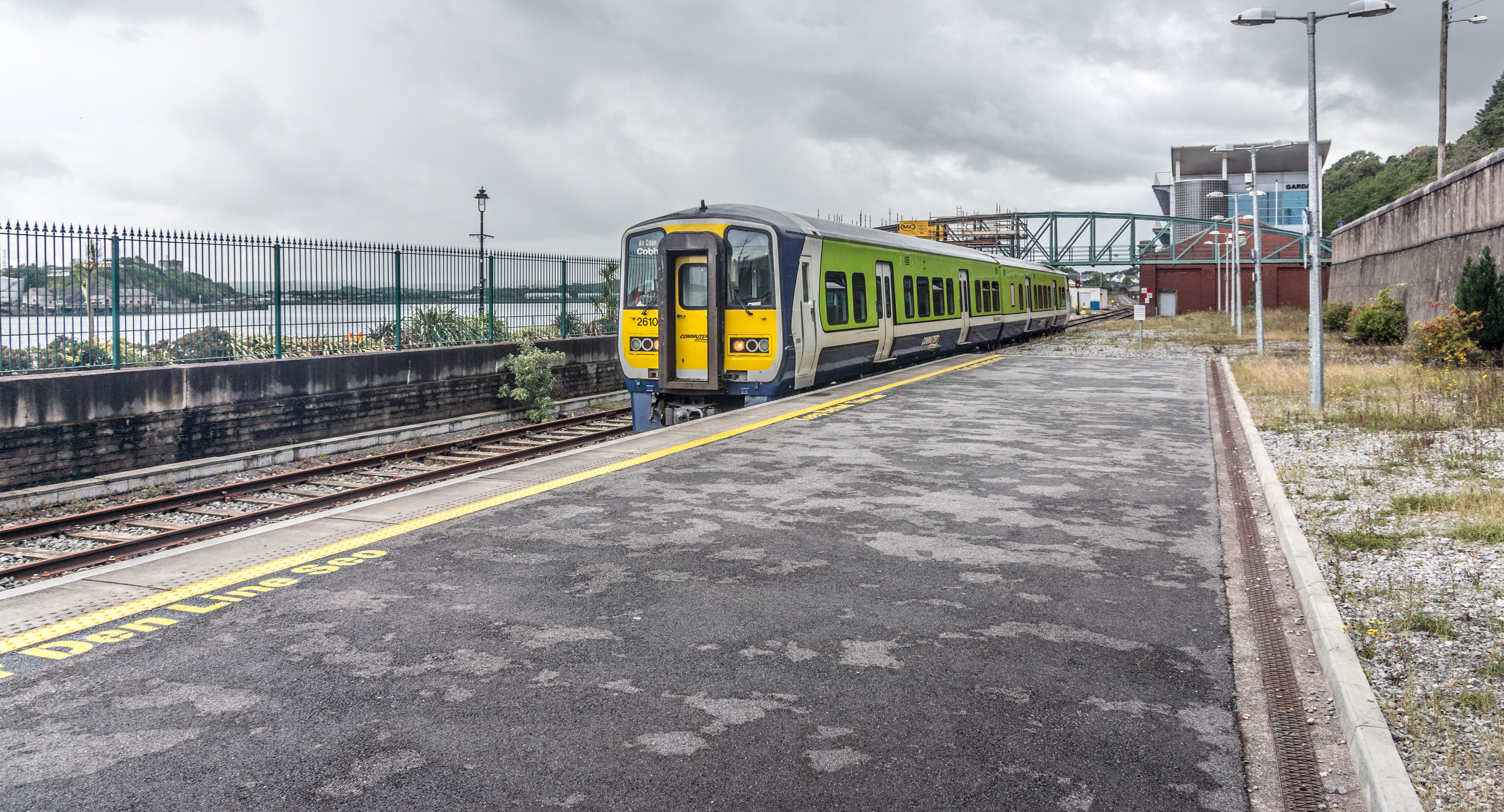 Cobh railway station serves the town of Cobh and is the terminus of the on Cork-Cobh section of the Cork Suburban Rail line. It is located in a red brick building adjacent to the town's Cobh Heritage Centre. It is famous for being the station where hundreds of survivors of the RMS Lusitania disaster left the town of Cobh after surviving the sinking. The station is staffed part-time and has a single platform. The station is the terminus of the Cork-Cobh section of the Cork Suburban Rail network. It began life as the terminus of the Cobh (then Queenstown) section of the Cork, Youghal & Queenstown Railway. The present station occupies only a small part of the old station building. The original station was expanded greatly during the latter part of the 19th century as it served what was then Ireland's largest emigration port which was also an important way-point as the last port between Western Europe and North America. The station was also the main receiving centre for mails for Ireland and Britain from the United States and Canada. Mail would be brought by ship to Cobh, processed and forwarded by mail express trains to Kingsown (now Dún Laoghaire)on the outskirts of Dublin and on to Holyhead. This was faster than than conveying by ship directly to Liverpool. With the development and growth of transatlantic air traffic Cobh lost its importance as a mail and passenger centre and a significant part of the train station remained largely unused until the opening of the Cobh Heritage Centre in the front part of the station in the 1980s. At that time the station was also reduced to a single platform. The freight yard of the station has now become a public carpark while another part of the station has become a covered carpark for Cobh Garda Station. The station opened 10 March 1862 and was closed for goods traffic on 3 November 1975.